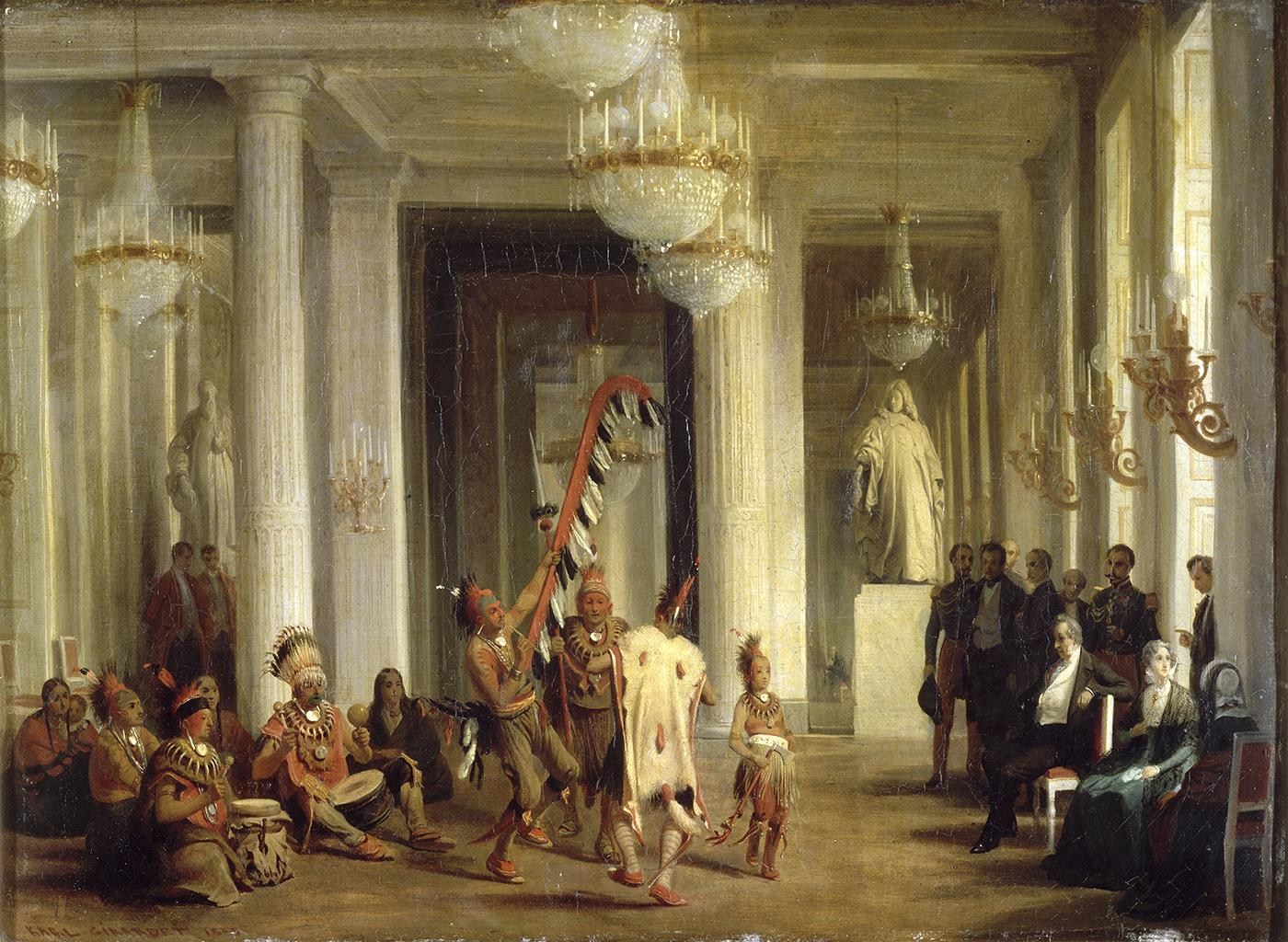 King Louis-Philippe watches a dance by Iowa Indians in a salon of the Tuileries, 21 April 1845.